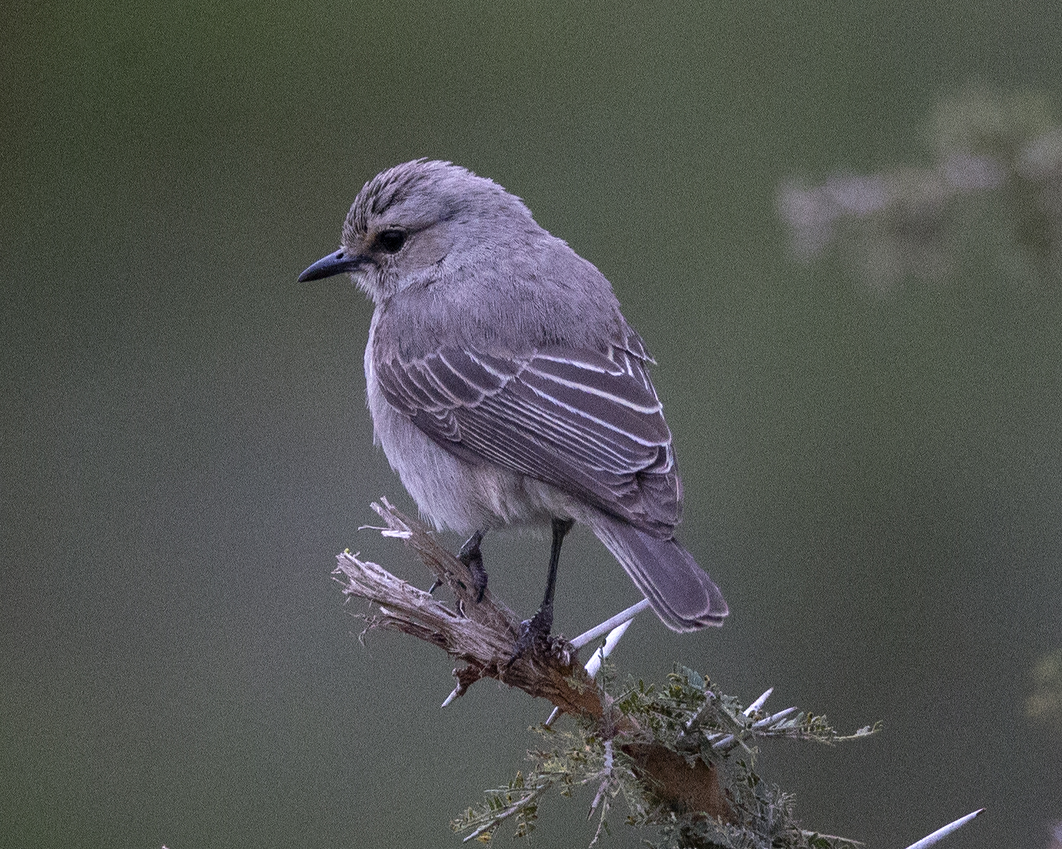 African Grey Flycatcher Bradornis microrhynchus Bradornis microrhynchus microrhynchus Masai Mara, Kenya September 2013 CF2P0876